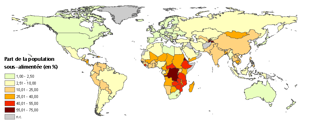 Starving population in 2007 (in %).